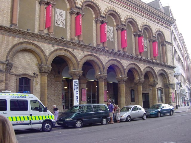 Bristol Colston Hall View of the original foyer entrance. A new foyer is under development to the rear of the building and is due to open in 2009.